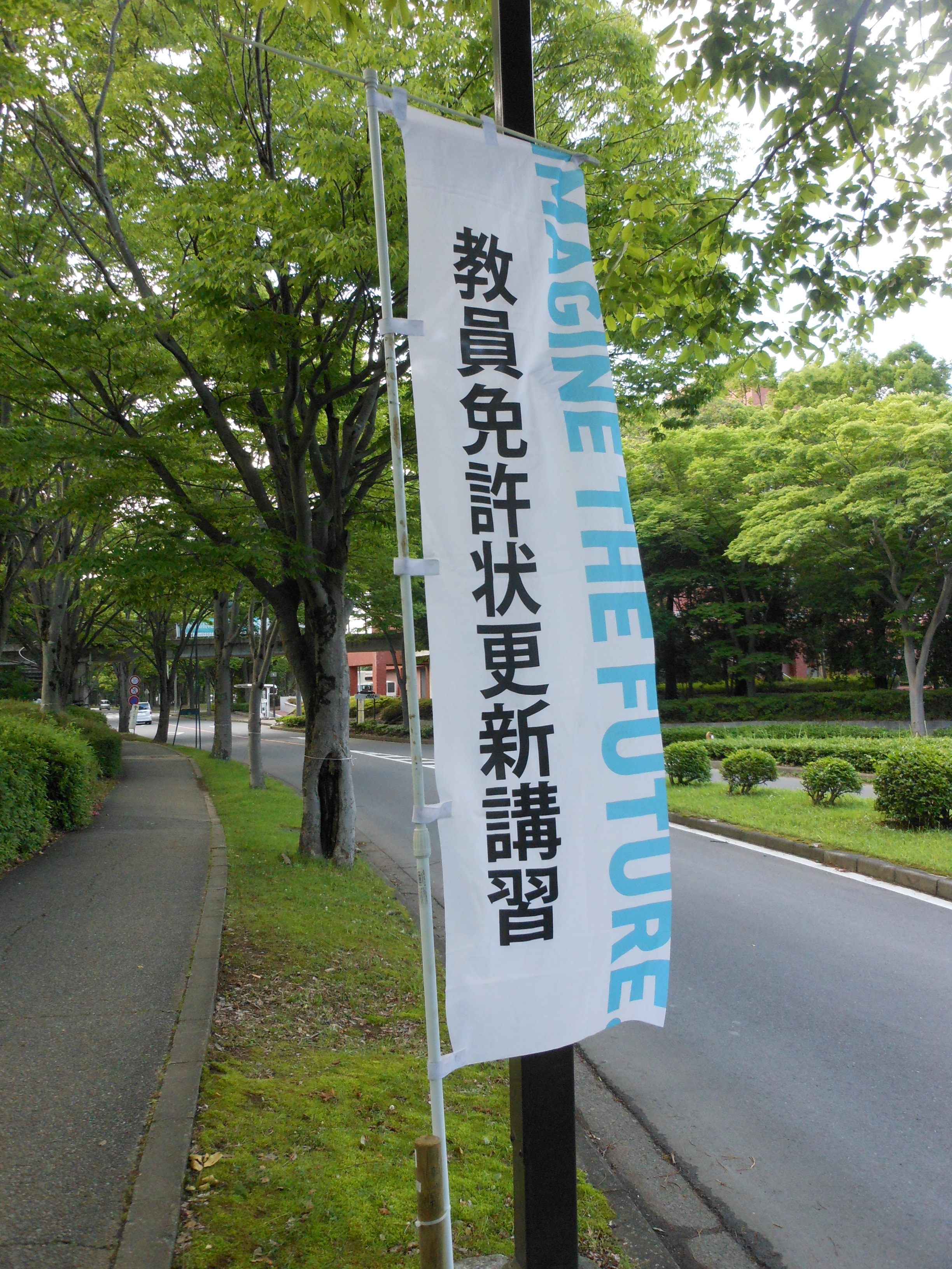 This is a banner to appeal a renewal course for teacher's license in University of Tsukuba.